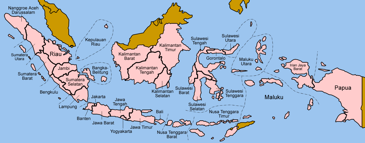 Map of the provinces of Indonesia in Indonesian. Made by User:Golbez based on a PD CIA map, using other sources to guesstimate the extent of West Irian Jaya and West Sulawesi.